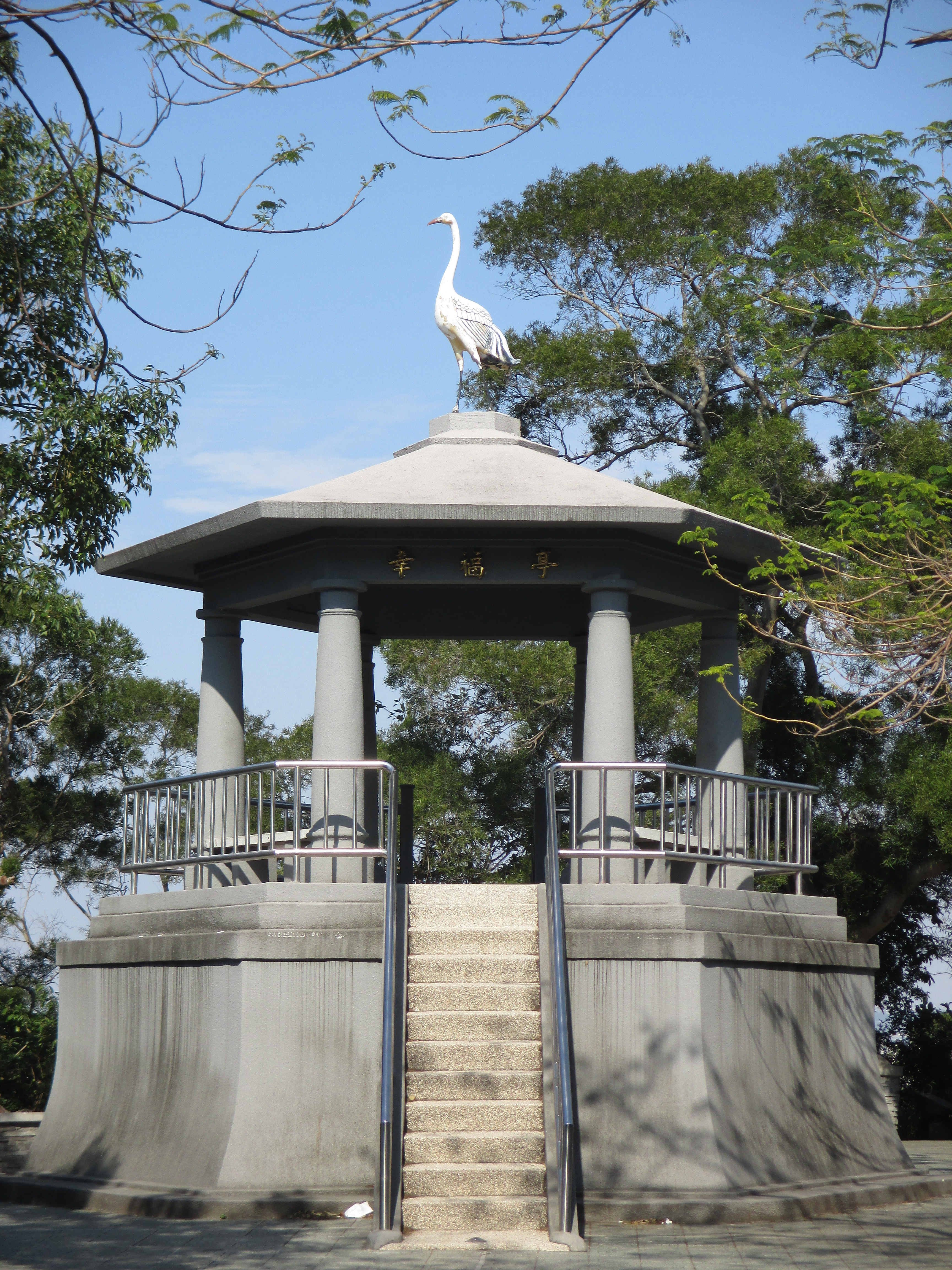 Pavilion of Luck (幸福亭) of Eighteen Peaks Mountain.